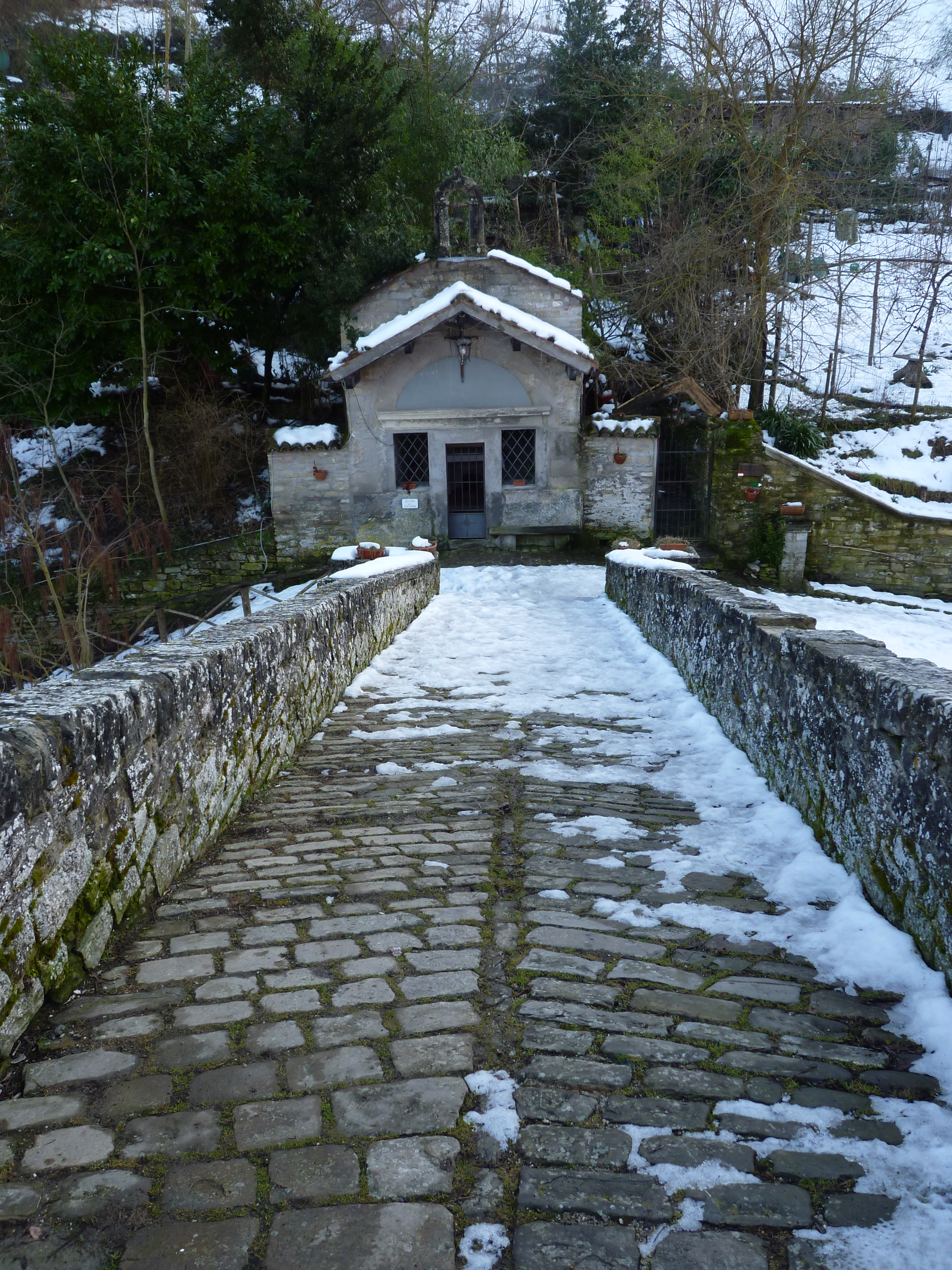 The oratorio della Visitazione in Portico di Romagna, in the province of Forlì-Cesena, Emilia-Romagna